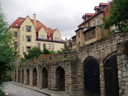 City wall at "Freiheit" ("Freedom") in Zeitz, Thuringia, Germany